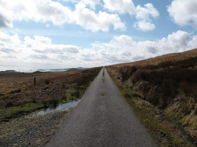 Congestion free on the A846 No need for a congestion charge on Jura. If driving the length of the A846 on the island it is quite an event to meet another vehicle. This view is looking just west of south and includes a little of Craighouse Bay in the distance.